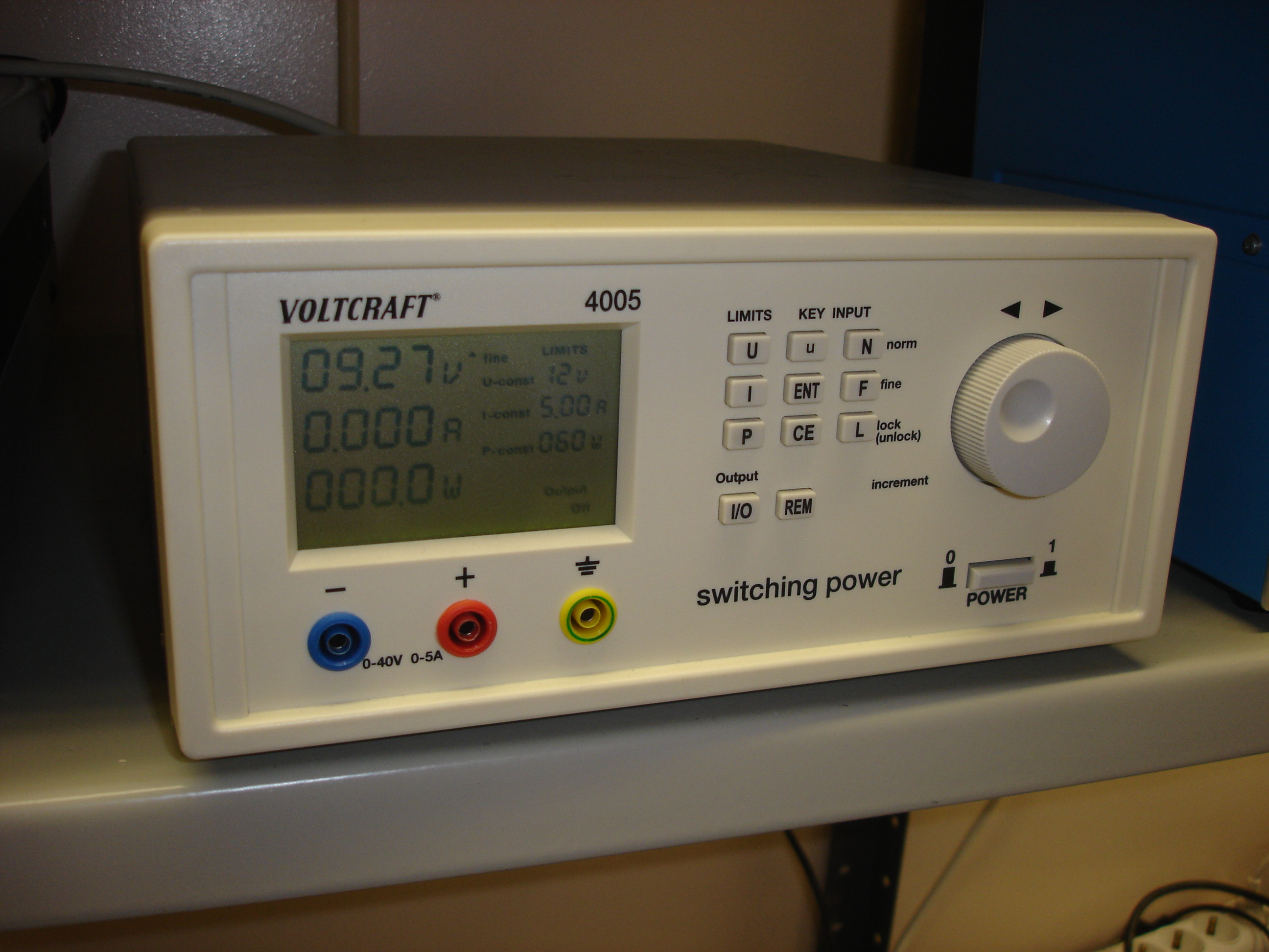 Switch-mode power supply. Voltcraft 4005.